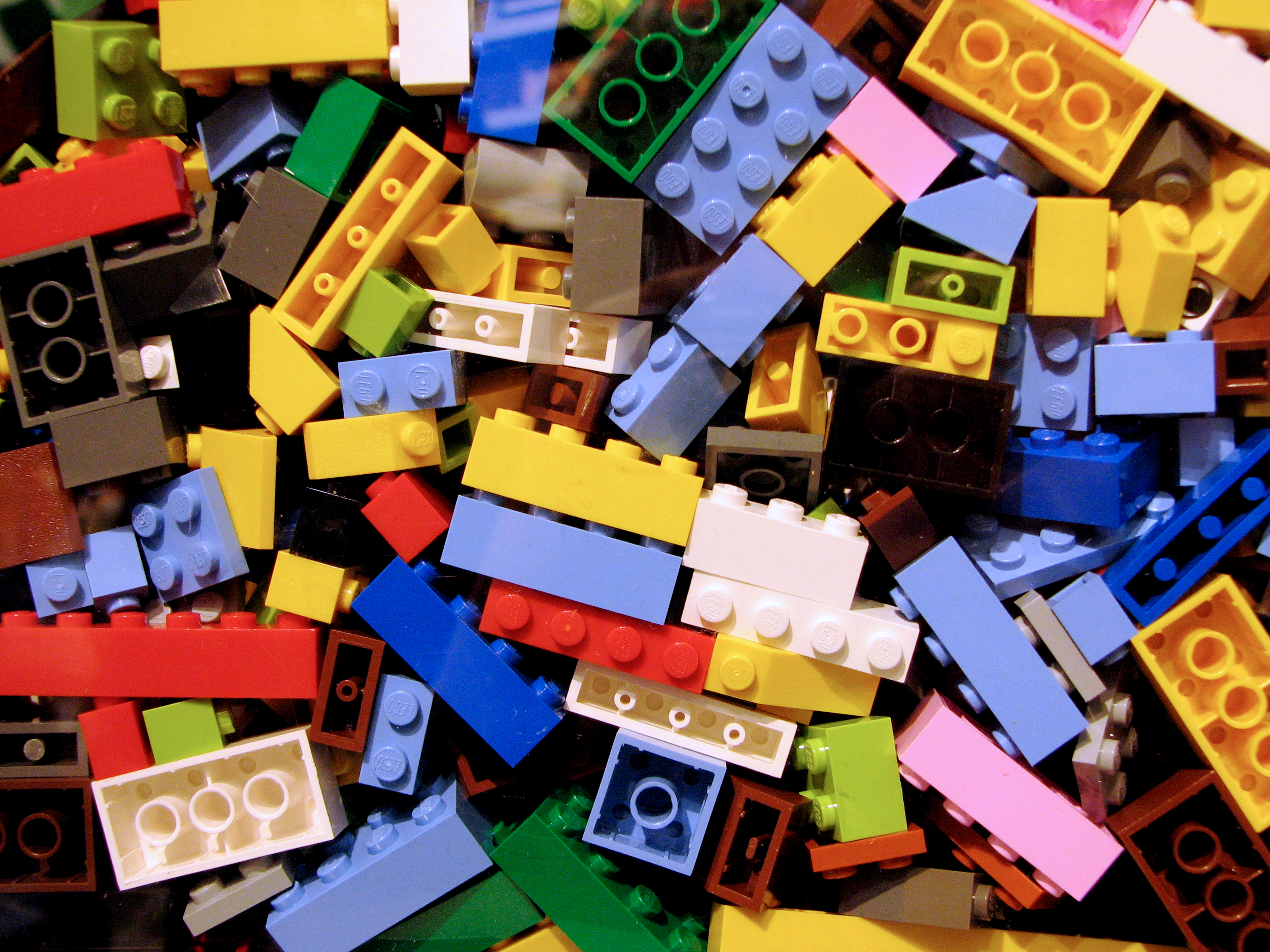 An assortment of Lego bricks from the LEGO store in the Downtown Disney Marketplace in Walt Disney World, Florida.